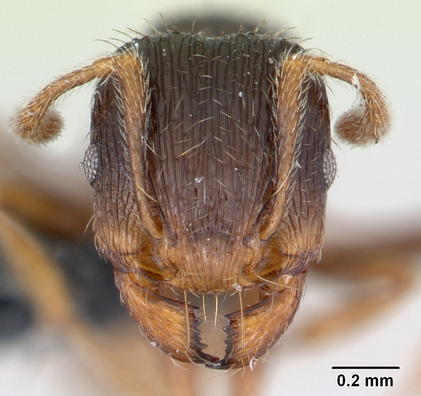 Head view of ant Tetramorium impurum specimen casent0173645.